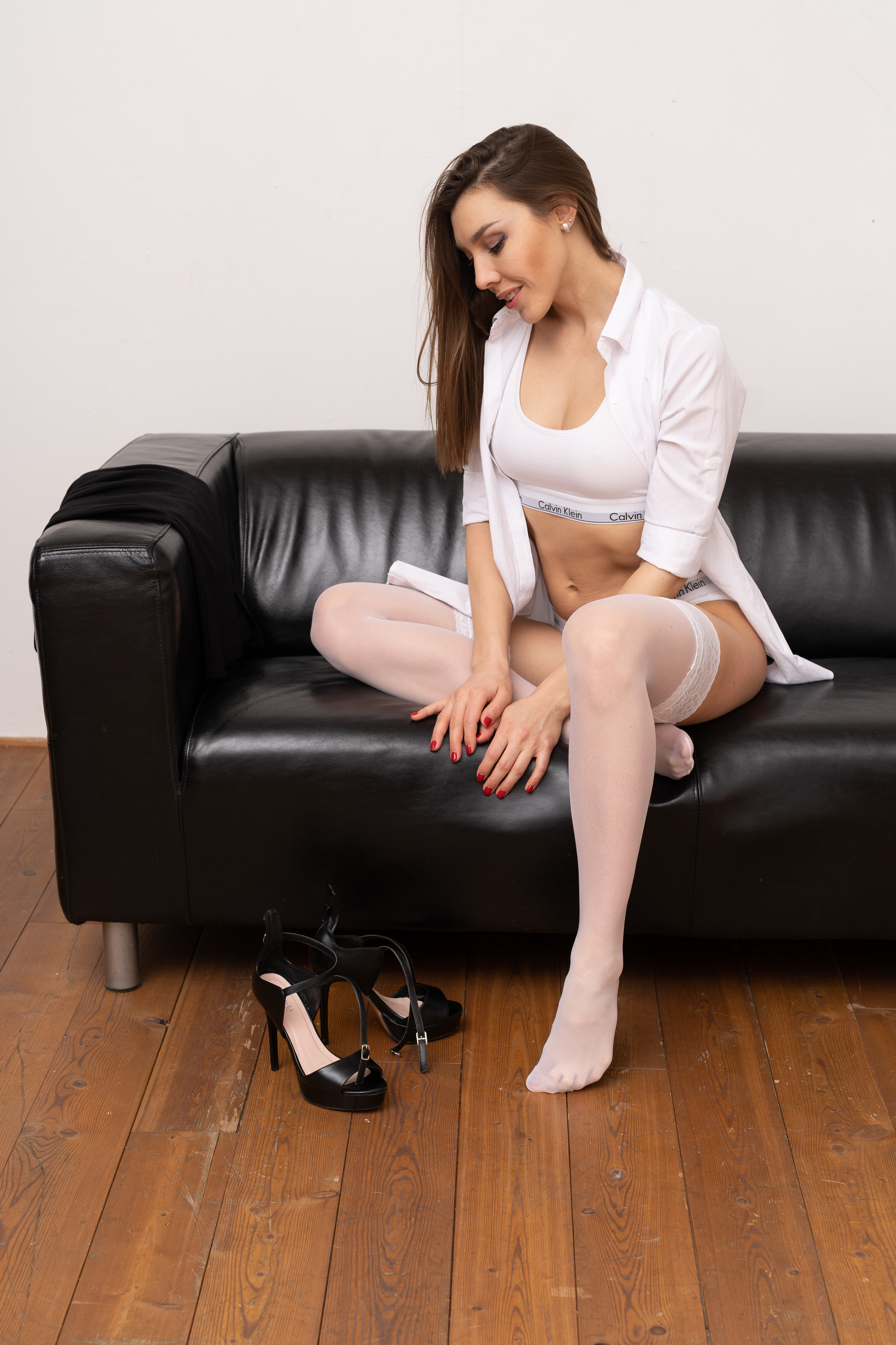 Slightly business casual Informal wear. Possible look underneath. Pose 1.